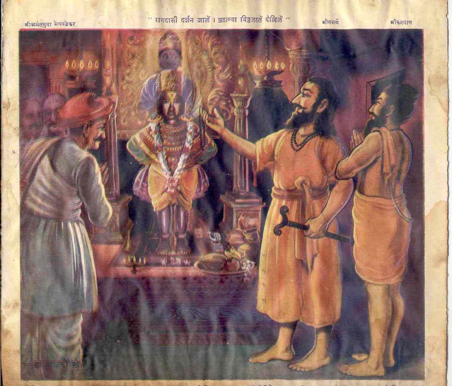 anantbuva-ramdas swami-kalyan swami